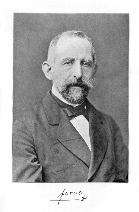 Portrait photo and signature of Friedrich Crull, taken in 1881, first published in the 1911 edition of Mecklenburgische Jahrbücher